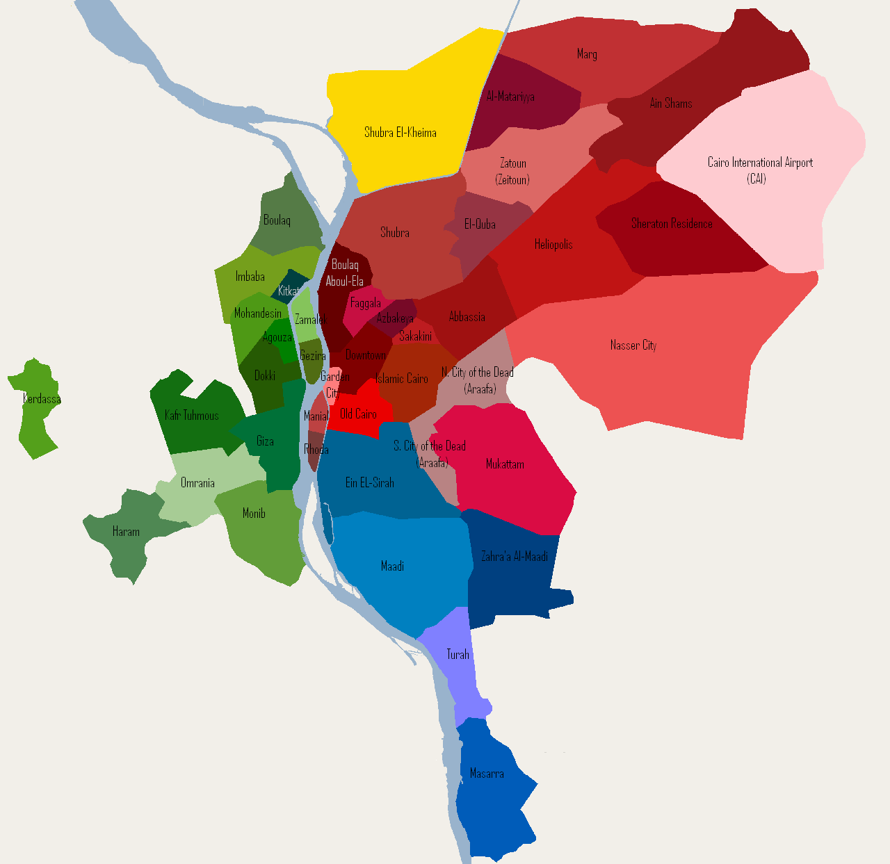 Map of Greater Cairo's Districts